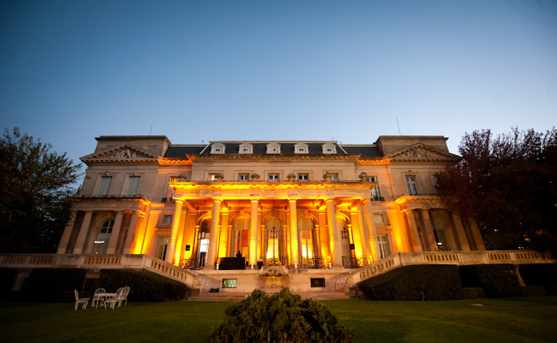 Palacio Sans Souci, in Victoria, north of Buenos Aires, Argentina. Designed by French architect René Sergent and completed in 1918, it later served as a film location for a number of well-known Argentine films such as Tiempo de Revancha (1981) as well as in Alan Parker's Evita (1996). Photo by Patricia Figueira @